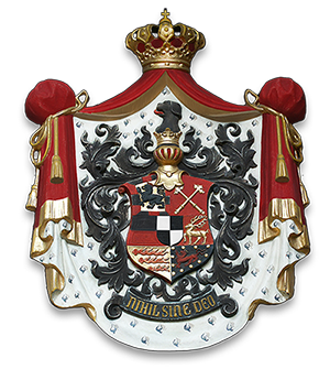 Coat of arms Hohenzollern-Sigmaringen